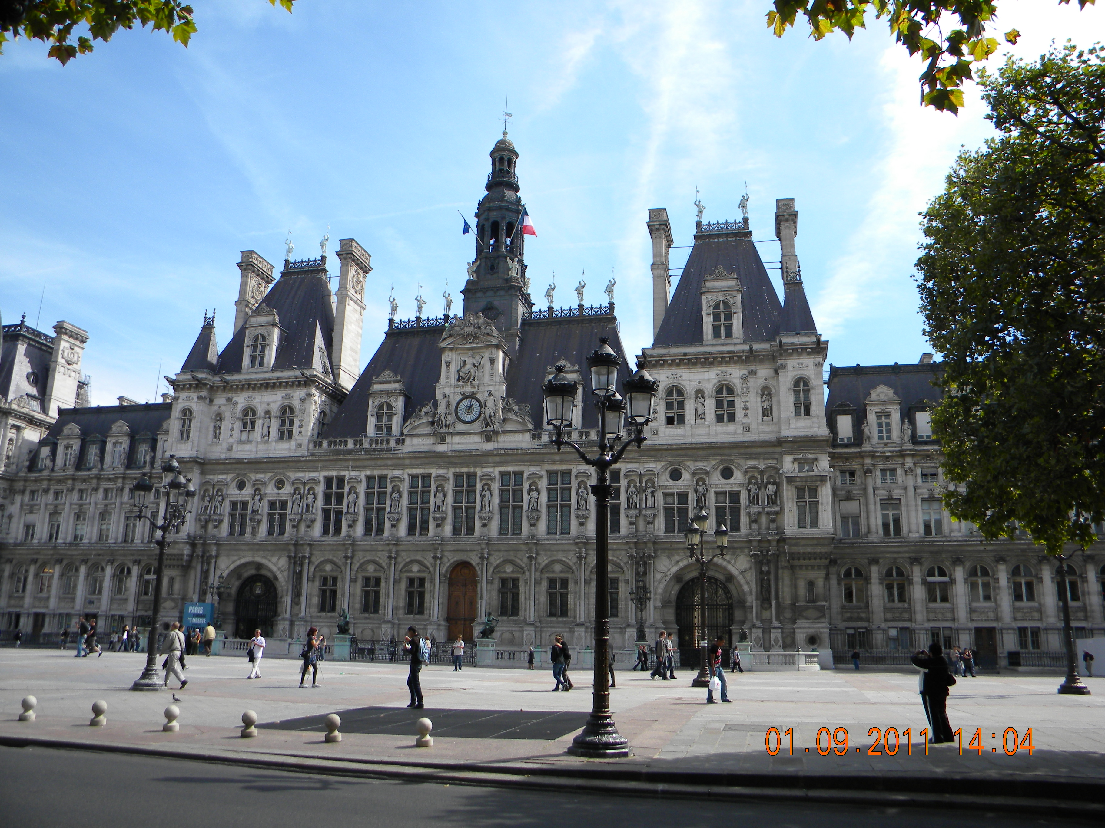 Hotel de Ville Paris, Mairie de Paris